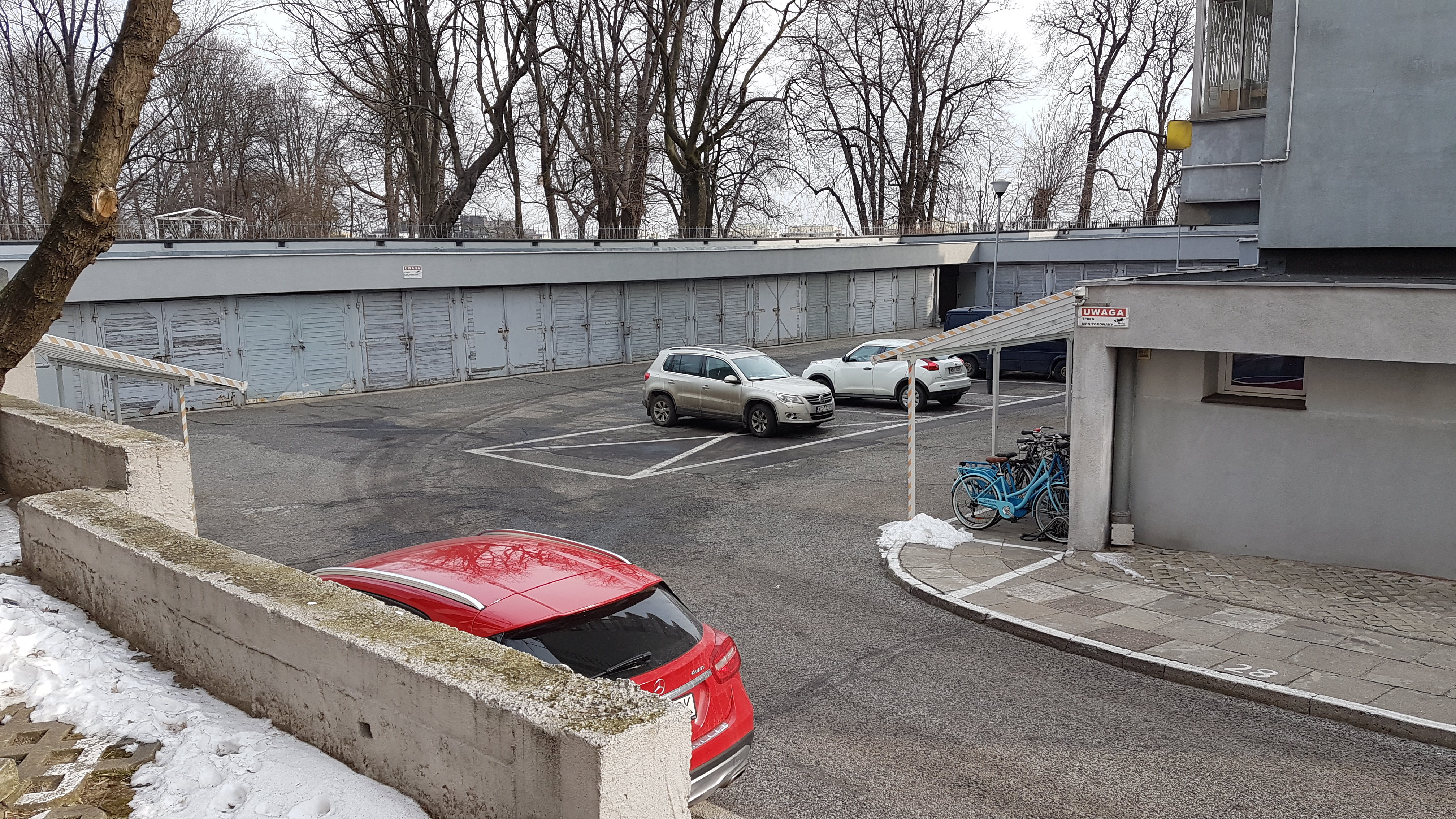 8 Smolna Street in Warsaw